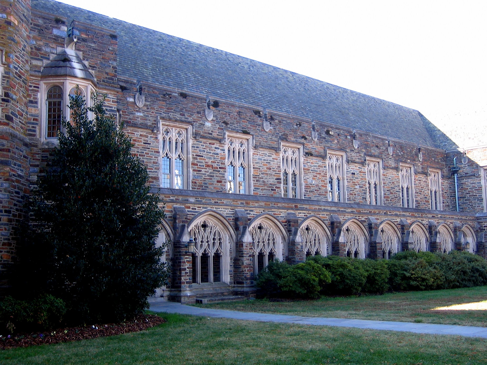 Side of Union Building on Duke's west campus